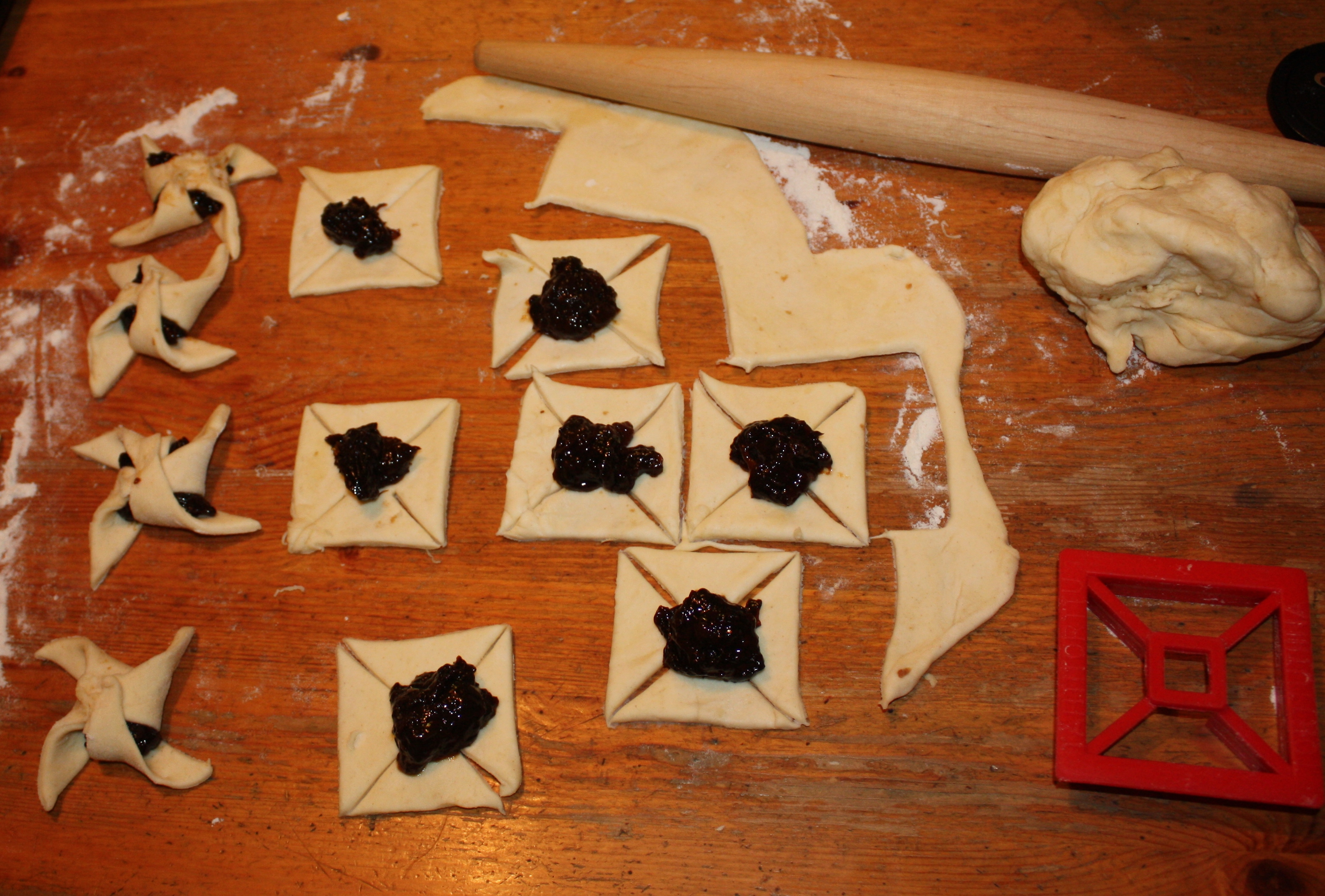 Baking Finnish Christmas pastries filled with prune marmalade.